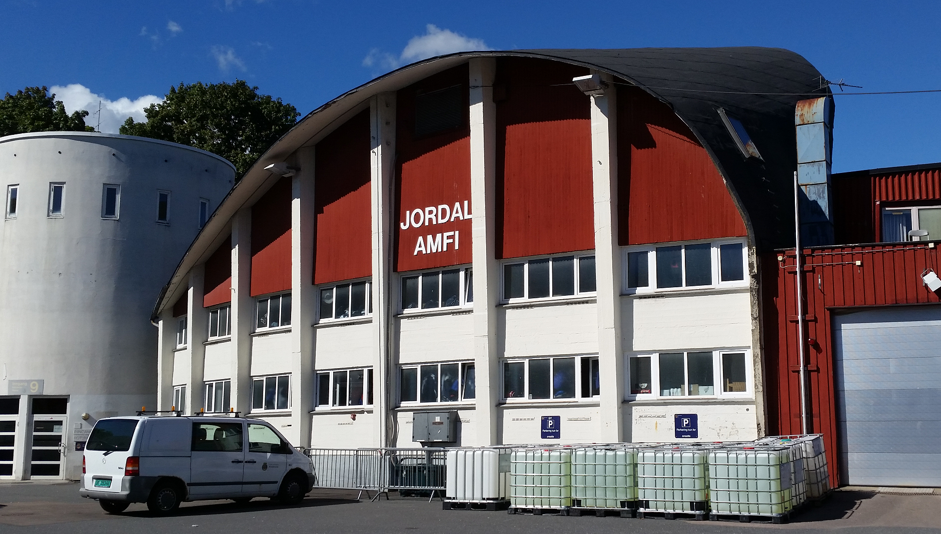 Image of Jordal Amfi, portraying the iconic bow and the arena name.